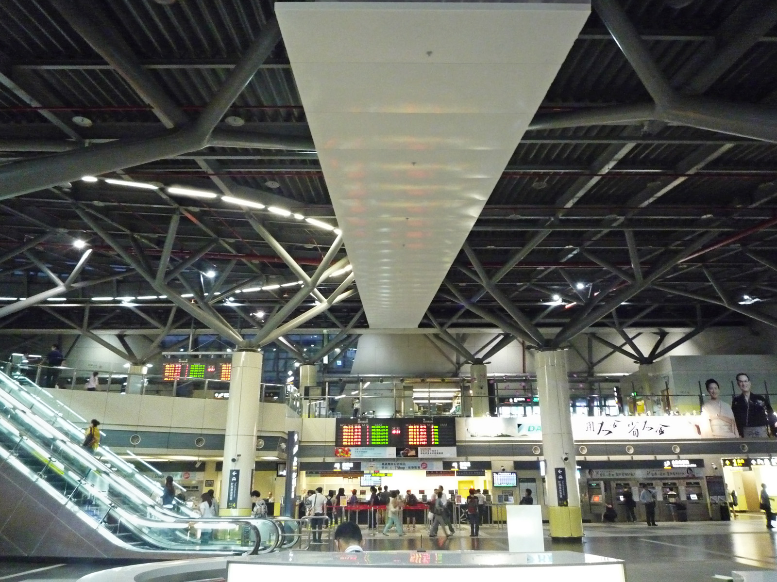 THSR Tainan Station Hall and Ticketing .